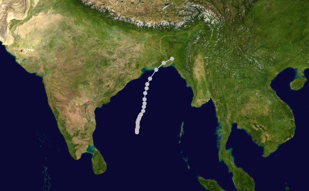 1970 Bhola cyclone track. Uses the color scheme from the Saffir-Simpson Hurricane Scale. The points show the location of each storm at six-hour intervals. The colour represents the storm's maximum sustained wind speeds as classified in the Saffir-Simpson Hurricane Scale (see below), and the shape of the data points represent the nature of the storm. Saffir–Simpson scale Tropical depression≤38 mph≤62 km/h Category 3111–129 mph178–208 km/h Tropical storm39–73 mph63–118 km/h Category 4130–156 mph209–251 km/h Category 174–95 mph119–153 km/h Category 5≥157 mph≥252 km/h Category 296–110 mph154–177 km/h Unknown Storm type Tropical cyclone Subtropical cyclone Extratropical cyclone / Remnant low / Tropical disturbance